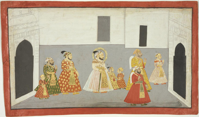 Indian and Himalayan Art Maharana Sangram Singh of Mewar, His Two Sons, and Courtiers Made in Udaipur, Mewar, Rajasthan, India c. 1715-20 Artist/maker unknown, India Opaque watercolor and gold on paper 12 7/16 x 21 1/4 inches (31.6 x 54 cm) Currently not on view 2004-43-1 Alvin O. Bellak Collection, 2004 Label This painting is one of four made for the rulers (called Maharanas) of the powerful Rajput kingdom of Mewar. Together these works illustrate an amazing, multigenerational tale of courtly intrigue, betrayal, and revenge. Here Maharana Sangram Singh (ruled 1710-34) walks with his sons and courtiers through the palace in Udaipur, Mewar's capital city. Although their faces are impassive and each figure is formally posed in profile, the artist has added little touches that suggest the intimacy of family relations and at the same time reinforce the hierarchy of royal roles. The gold-haloed Maharana, for example, holds the hand of his small heir, the boy who would become Maharana Jagat Singh II. The rearmost man in green is the courtier Baba Bharath Singh. He holds the hand of another of the king's younger sons, probably Nathji.